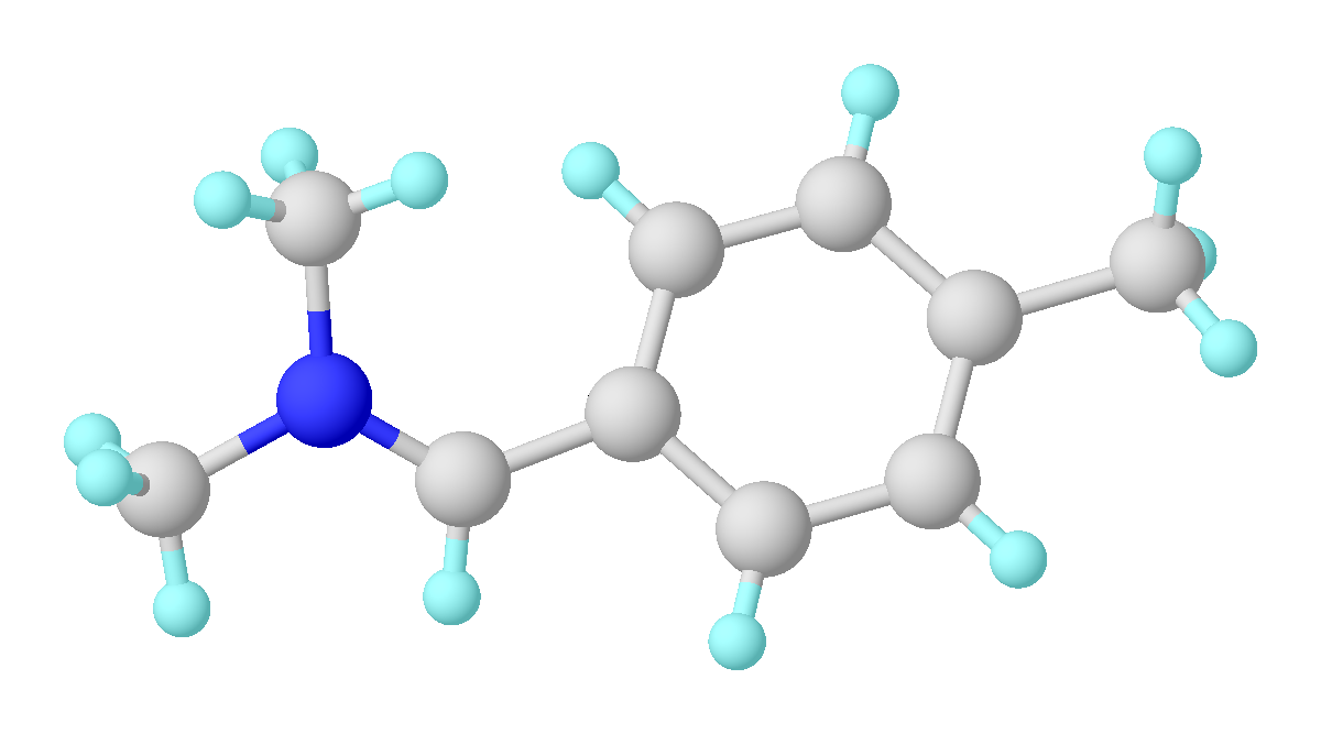 X-ray structure of the cation in the salt [Me2N=C(H)Ph]+OTf-.